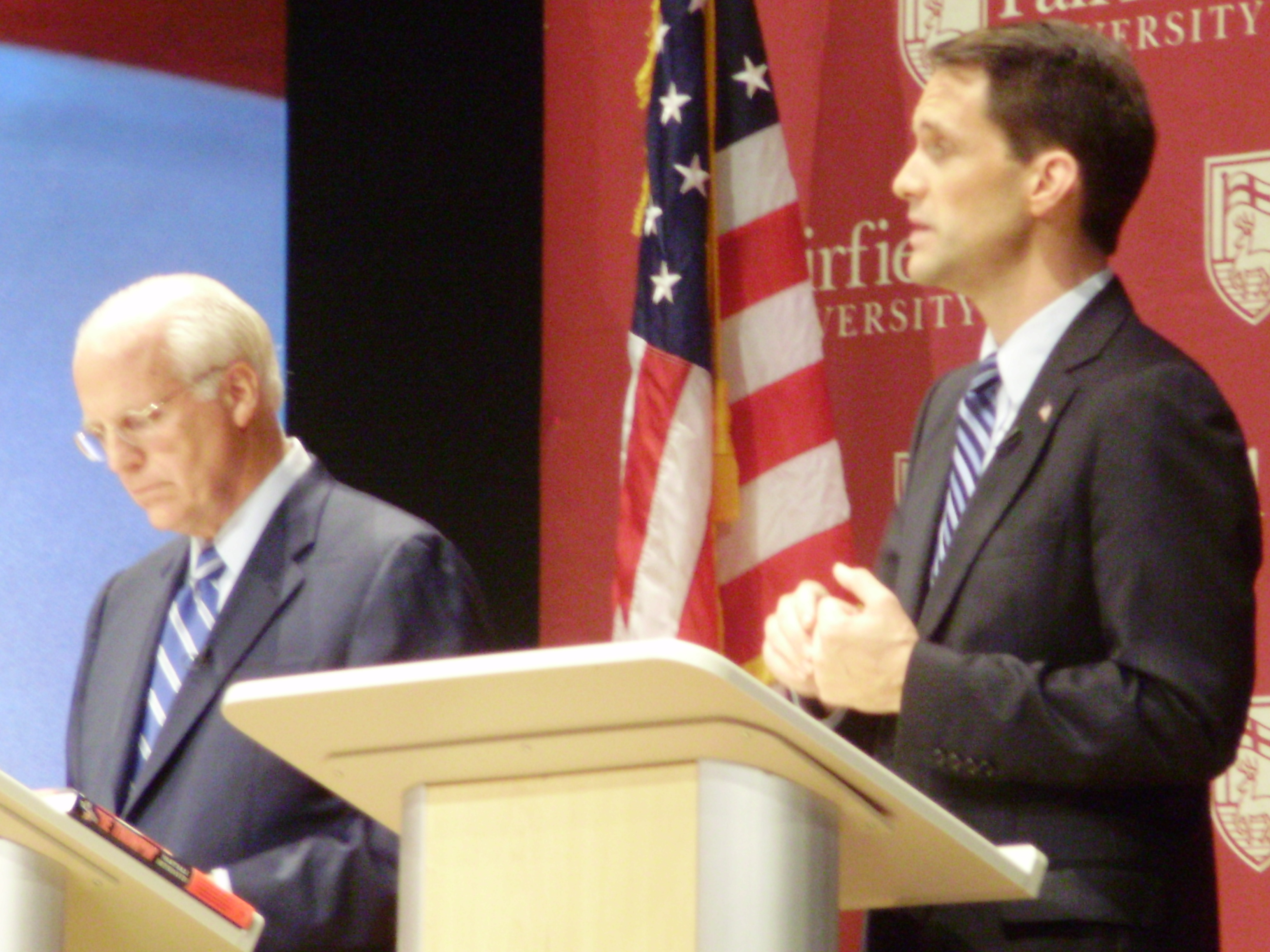 Debate between Rep. Chris Says (R: CT-04) and Democratic challenger Jim Himes. Fairfield University, Fairfield, CT